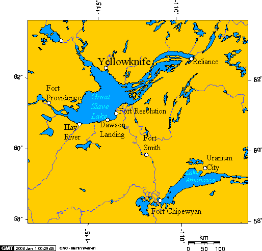 map of Great Slave Lake and Lake Athabasca left|thumb|300px|Orthographic projection centred over Yellowknife, NWT